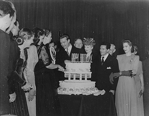 The image of Eleanor Roosevelt with Red Skelton, William Douglas, Lucille Ball, and John Garfield